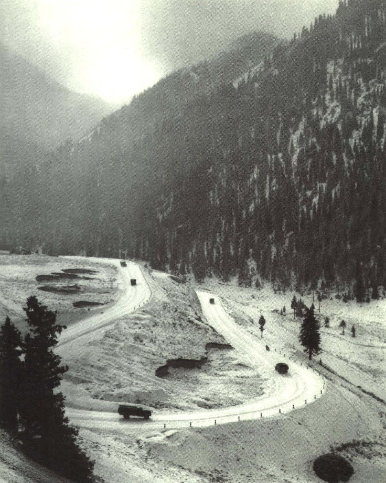 1965-02 1965 新疆天山公路